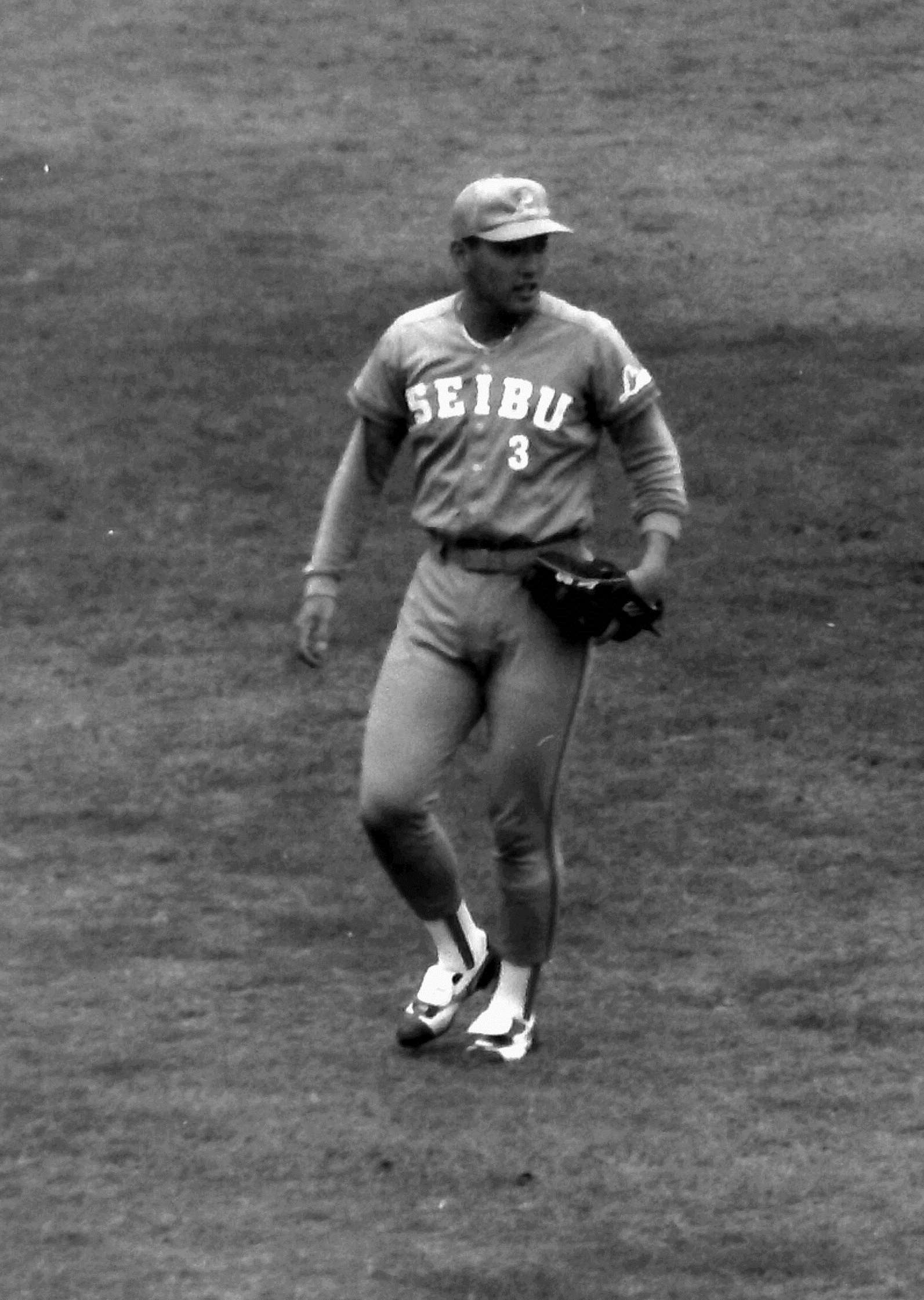 Kazuhiro Kiyohara, playing in Kawasaki stadium